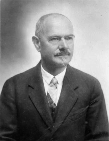 Alojzij Knafelc (1859-1937)